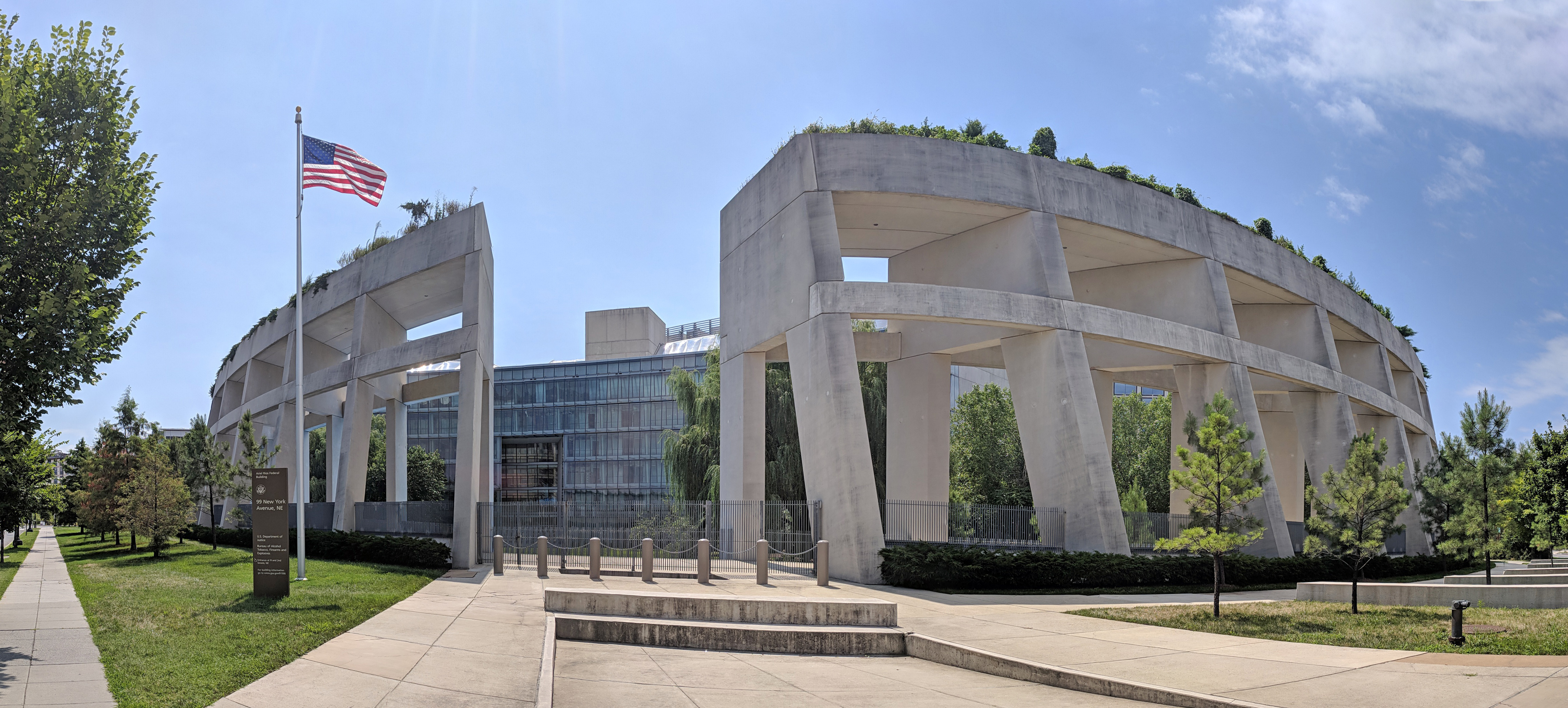 A multi-shot panoramic view of the Ariel Rios Federal Building on New York Ave NE in Washington DC